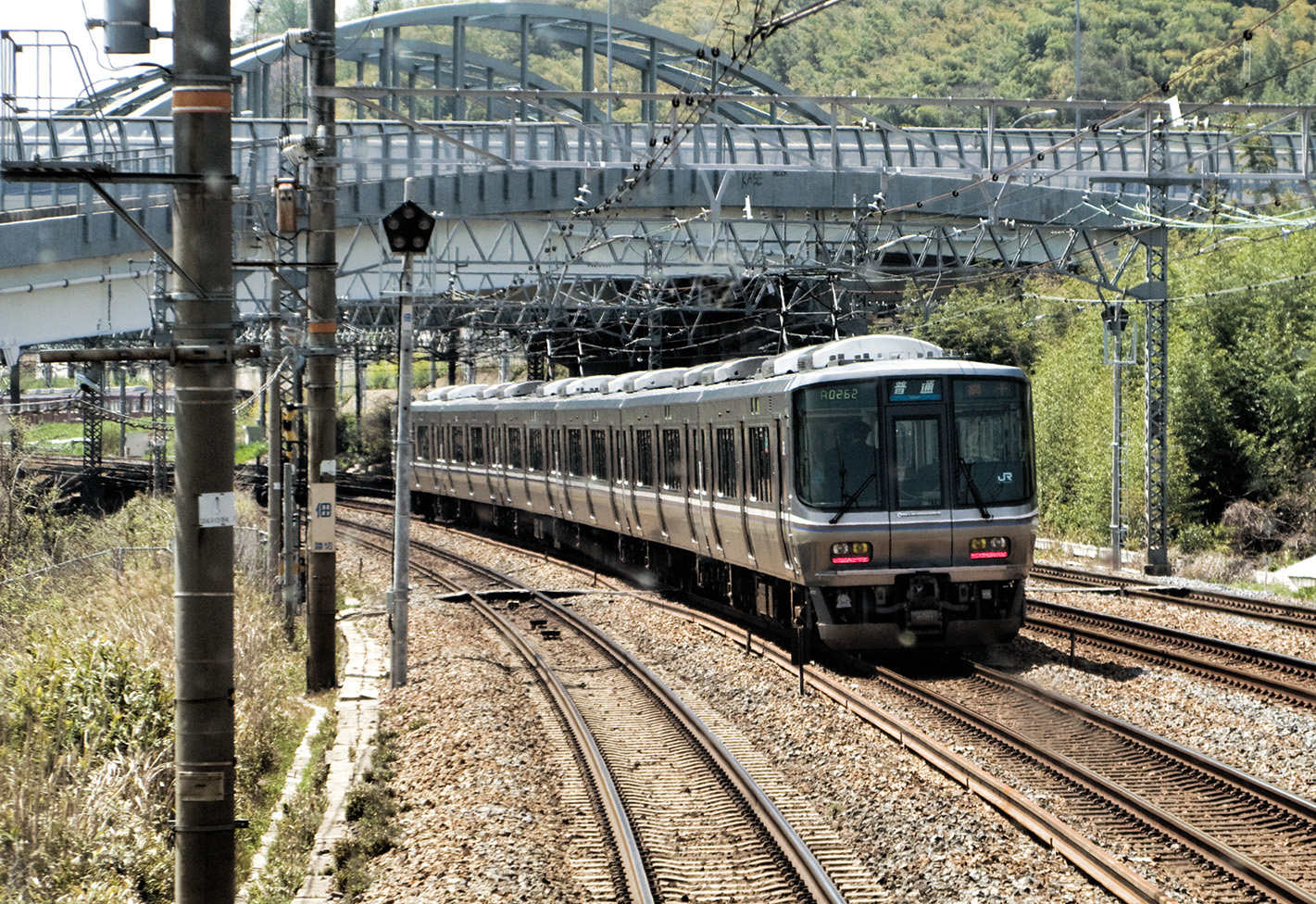 JR West 233 series EMU on JR Kyoto Line